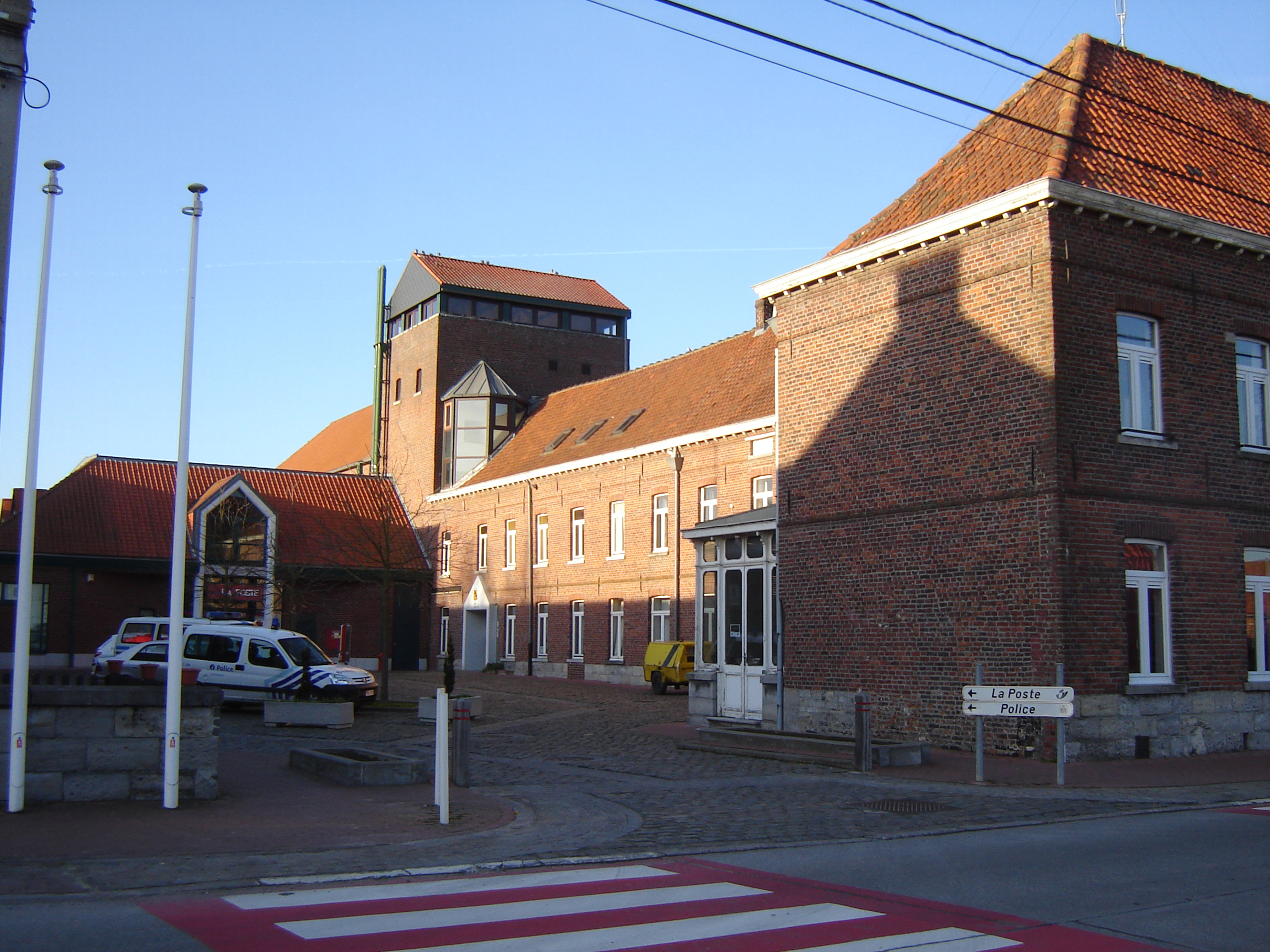 Town hall of Brunehaut (town hall + post office + police + ...). Located in the village of Bléharies, municipality of Brunehaut, province of Hainaut, Belgium